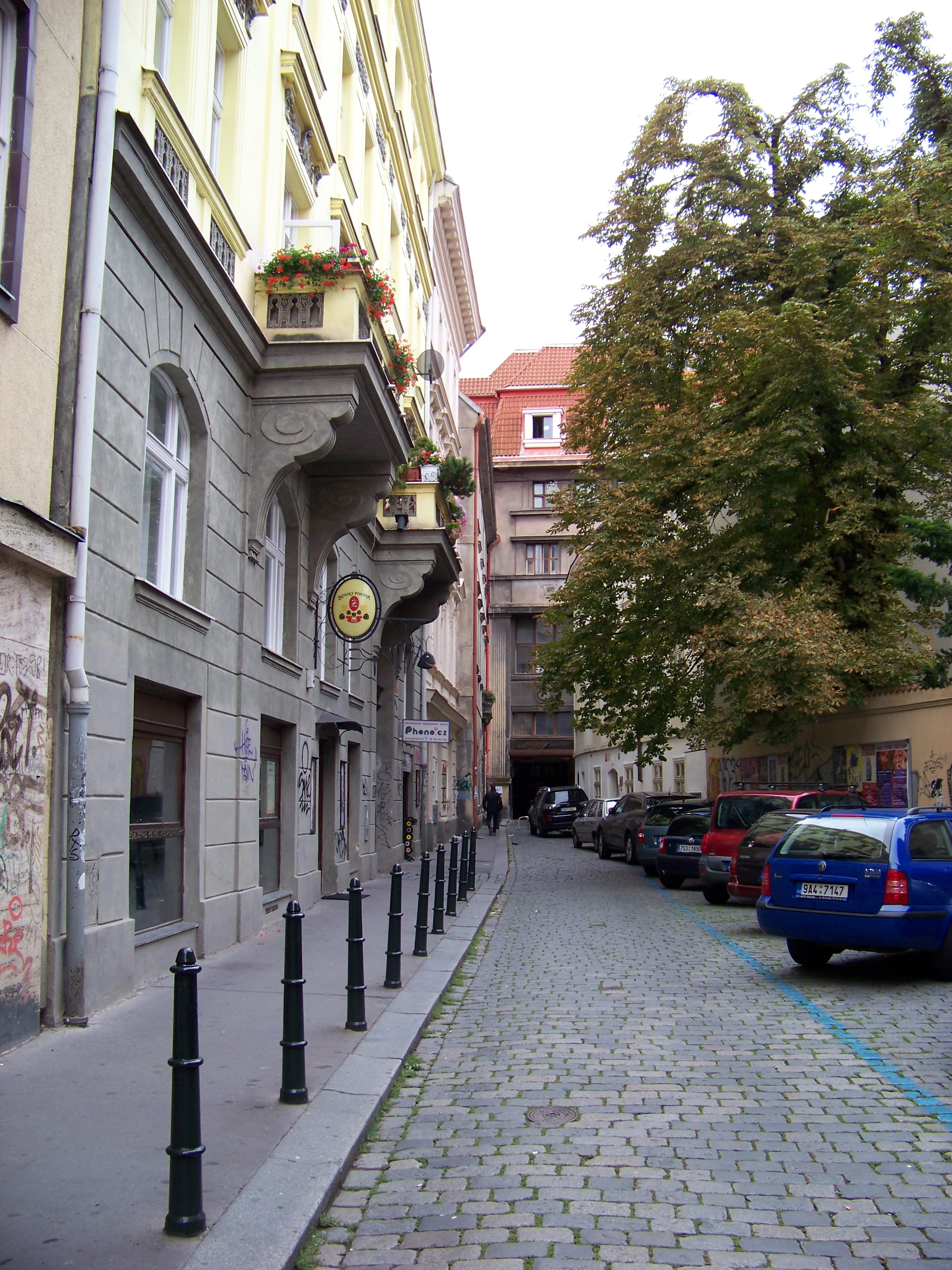 Prague-New Town. Opatovická street. - OpenStreetMap(Info)